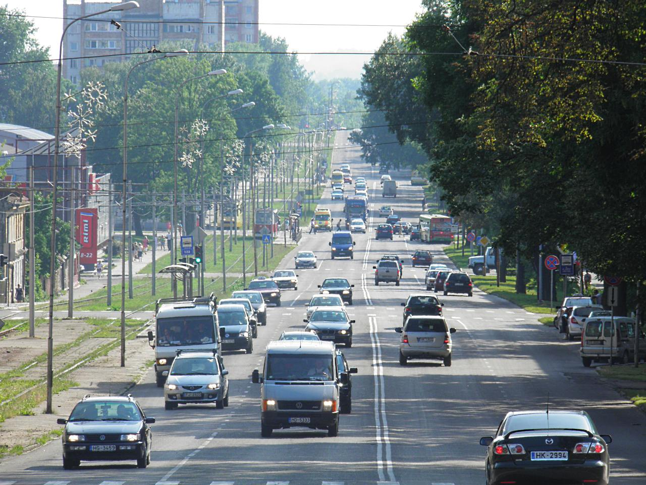 18. novembra street (also a part of the National Road A13), Jaunbūve neighbourhood, Daugavpils, Latvia.